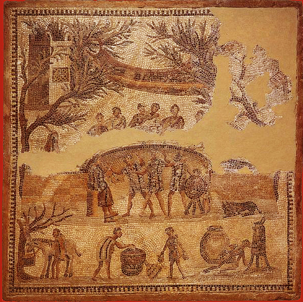 Outdoor banquet mosaic Reportedly found in Ostia, fourth century A.D. 58.4 x 58.1 cm. The Detroit Institute of Arts, 54.492.